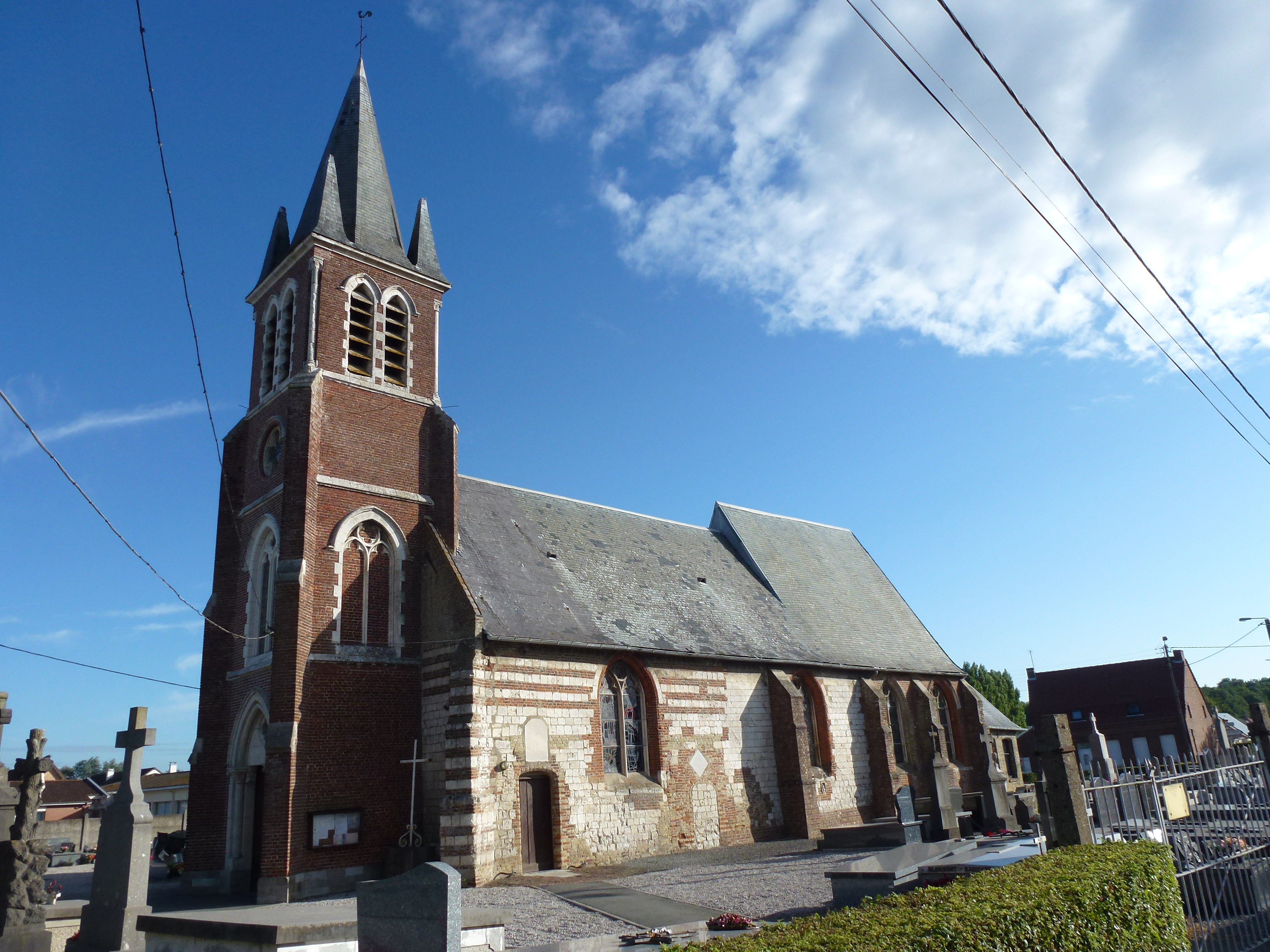 Campagne-lès-Wardrecques (Pas-de-Calais, Fr) église Saint-Martin